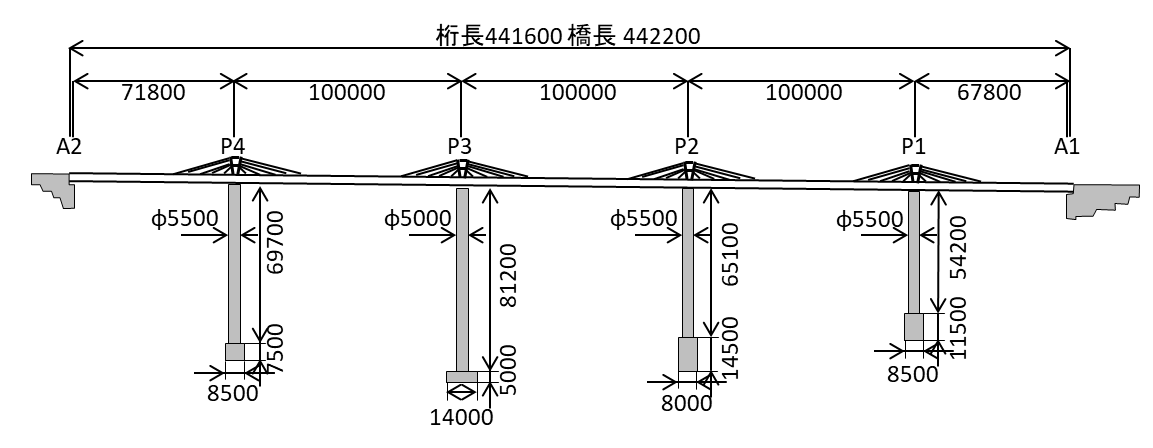 Skelton diagram of Shin-Meishin Mukogawa Bridge.